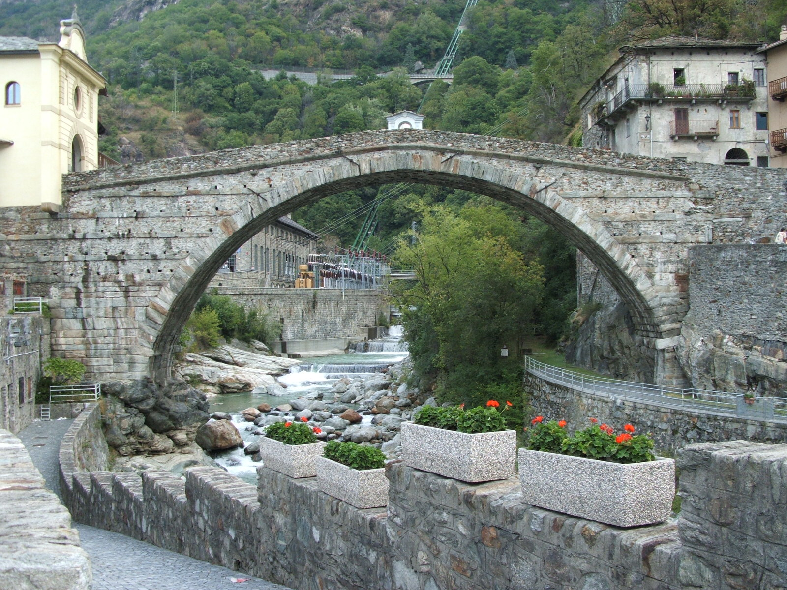 The Roman Pont-Saint-Martin Bridge in Pont-Saint-Martin, Aosta Valley, Italy.